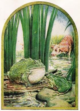 John Rae's illustration to Fables in Thyme for Little Folks (New York 1918